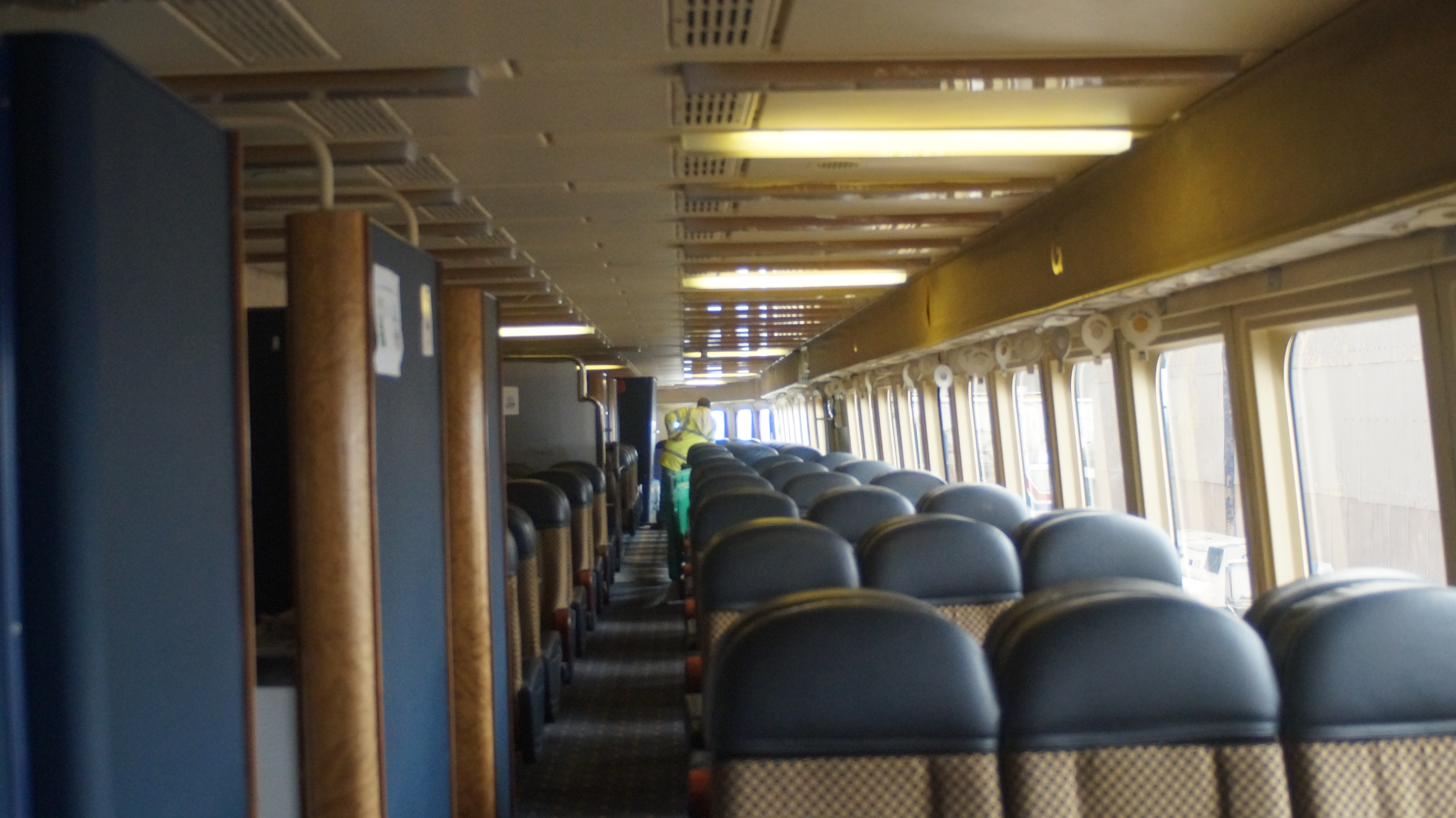 The newly restored interior of The Princess Anne at the Hovercraft Museum